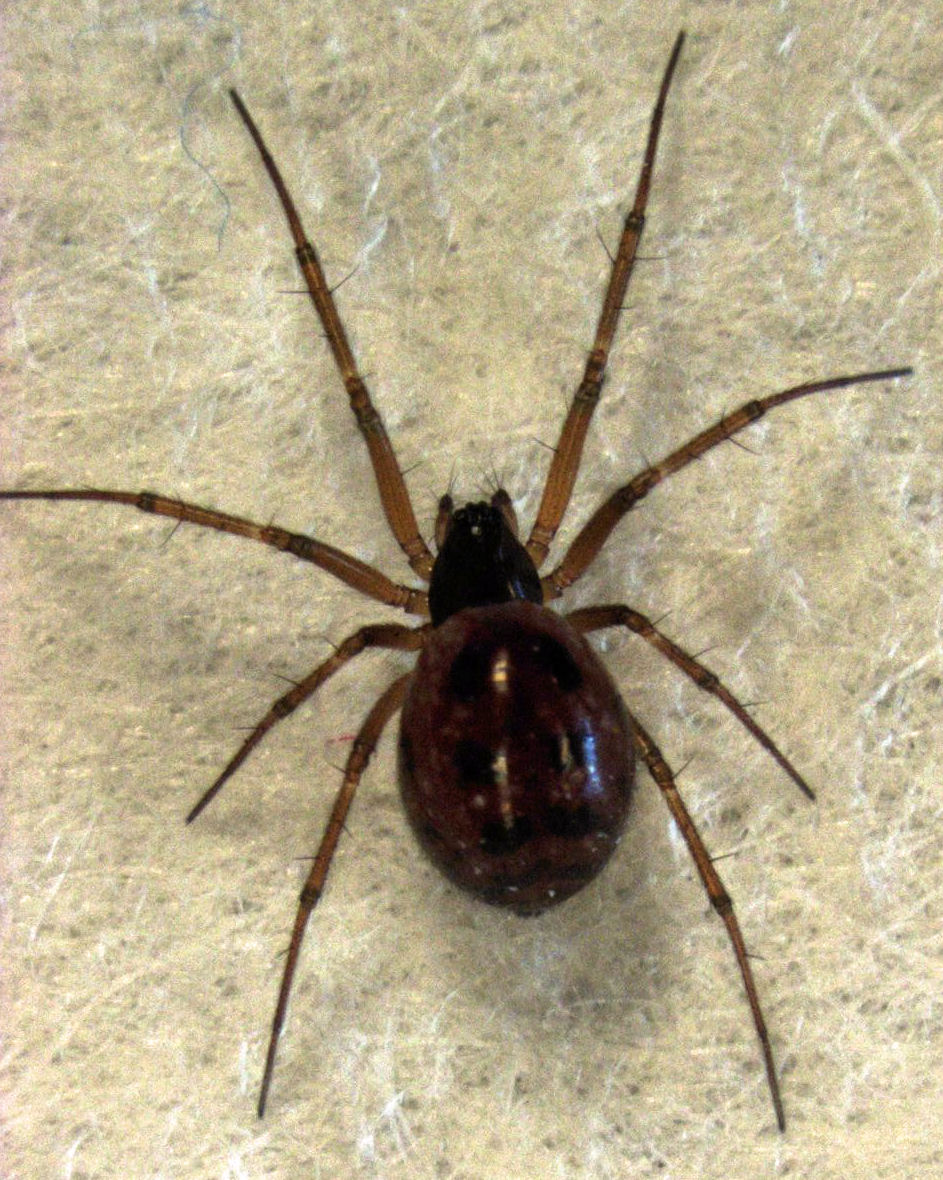 live female linyphiid, probably Tenuiphantes tenuis